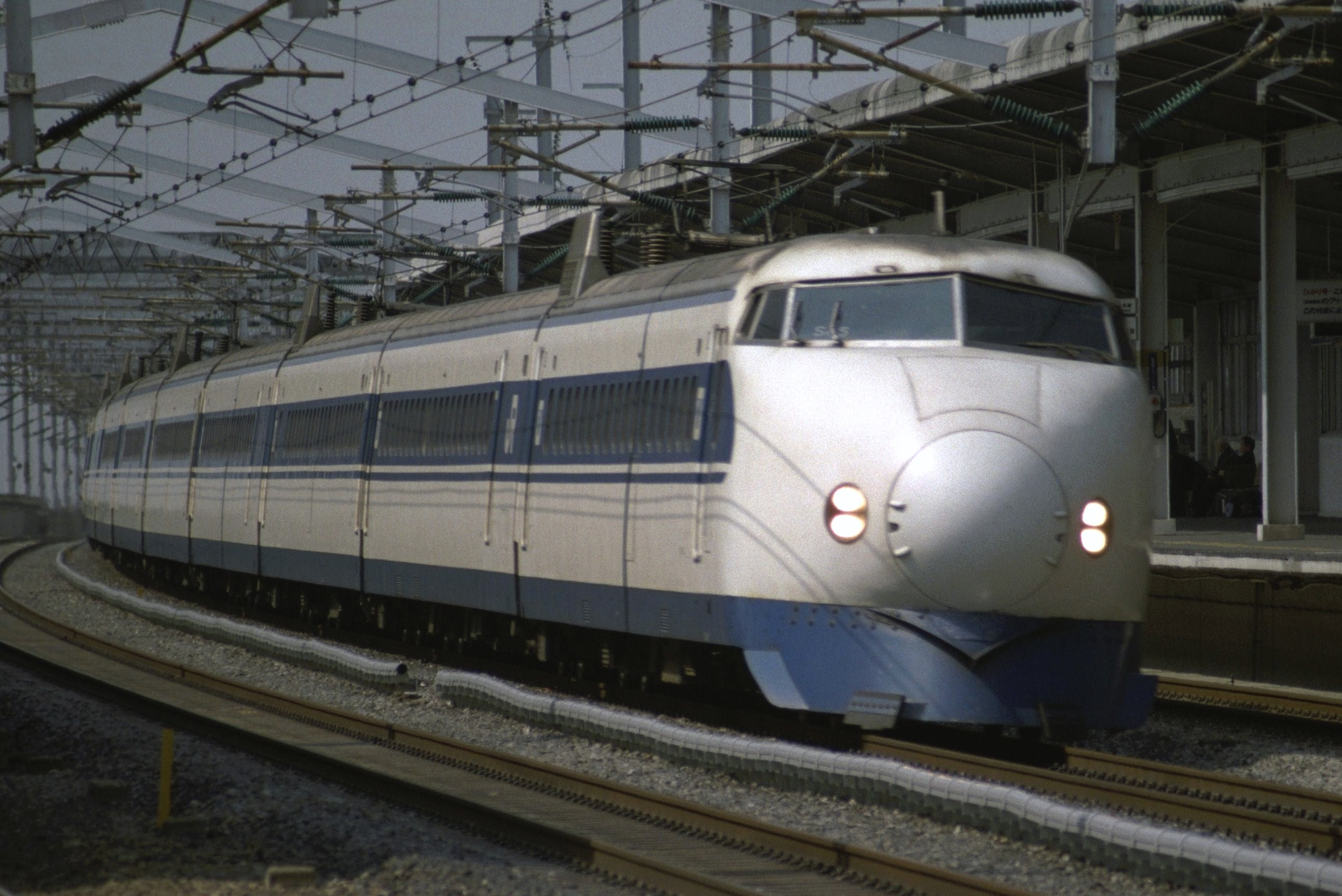 JR West 0 series shinkansen 12-car set SK5 on a Shin-Osaka-bound West Hikari service passing through Nishi-Akashi Station on the Sanyo Shinkansen